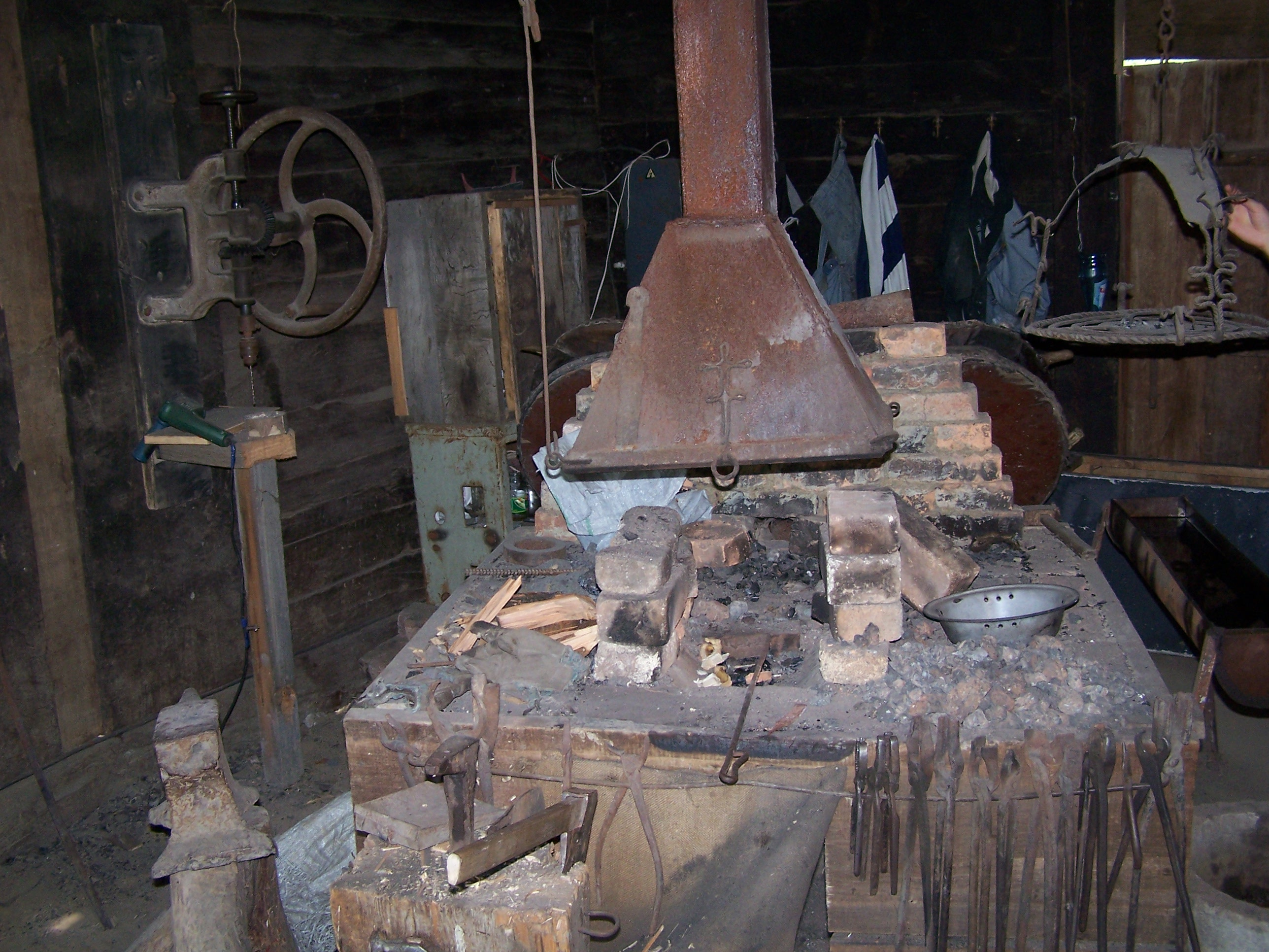 At the Ethnographic museum